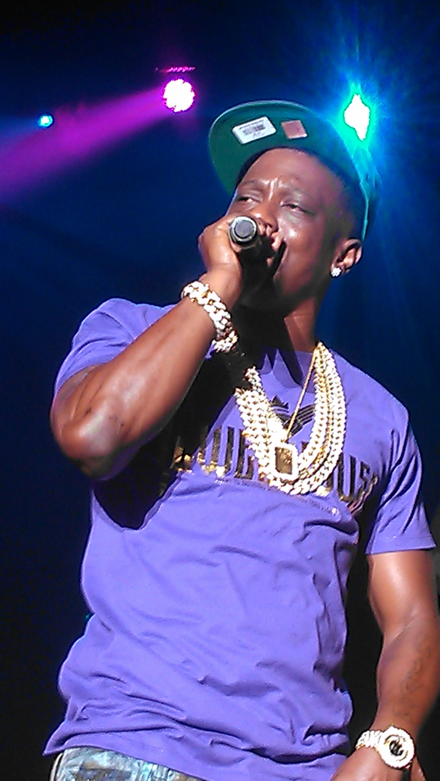 Lil Boosie live in concert.